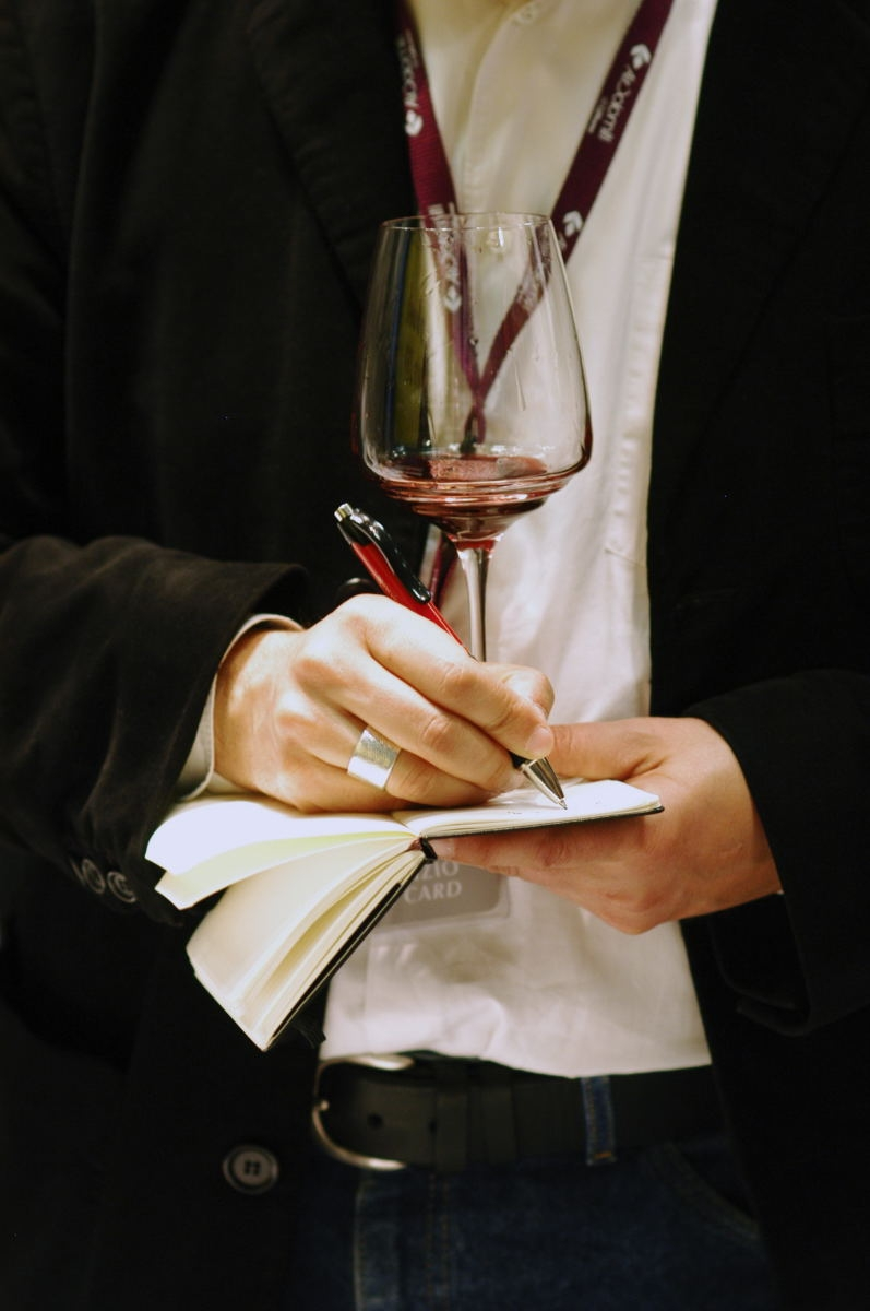 "Wine is poetry in a bottle" (Stevenson)